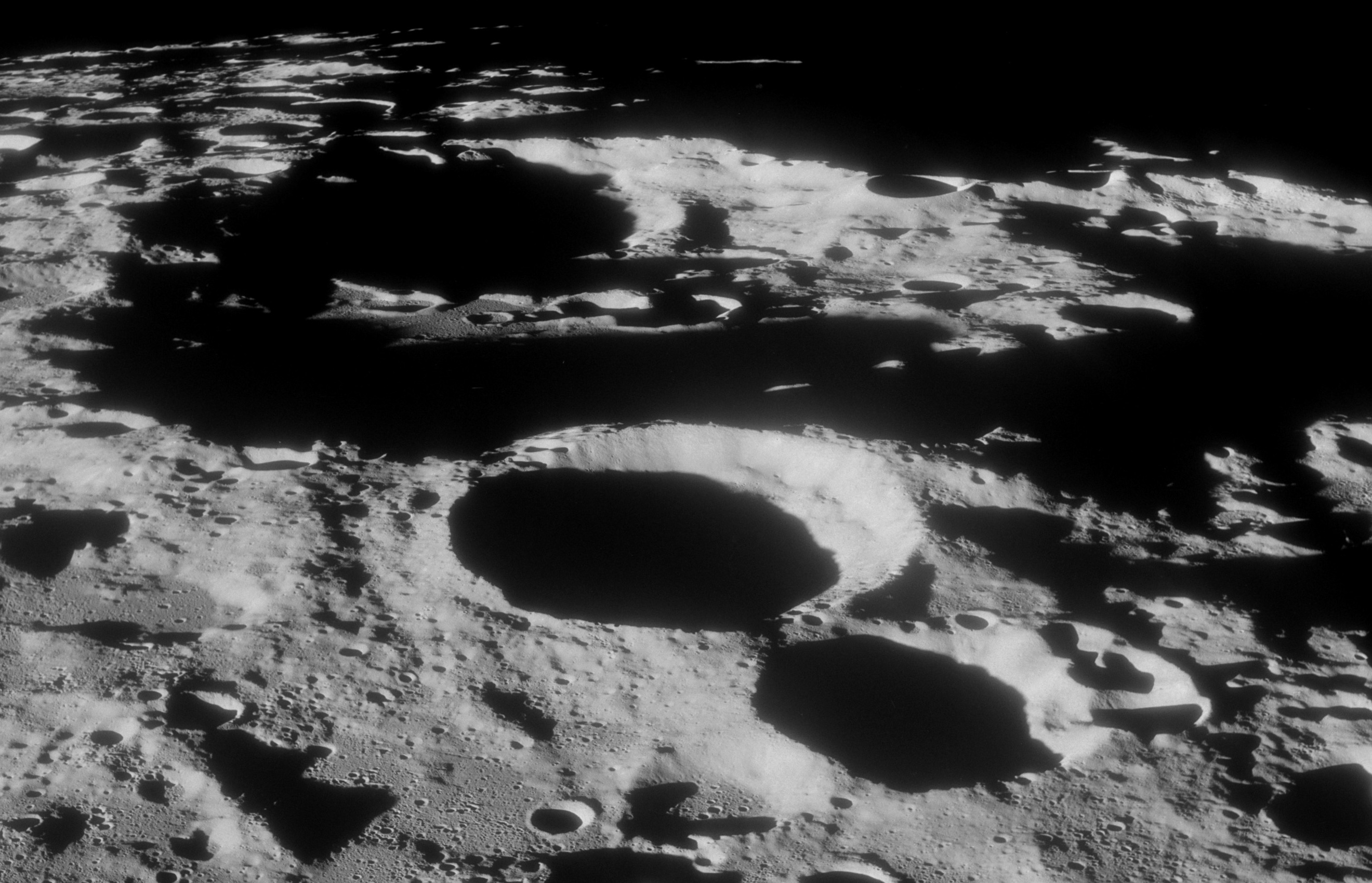 Oblique view of Engel'gardt (slightly below center), on the far side of the moon. Facing northeast. The highest point on the moon is on the east edge of this crater.